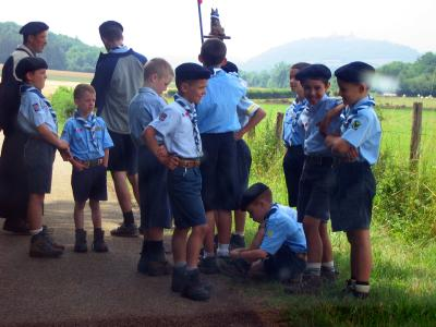 French cub scouts (from the Scouts de Doran association). Their uniform is the historic one of french cub scouts. Auteur : Akela NDE